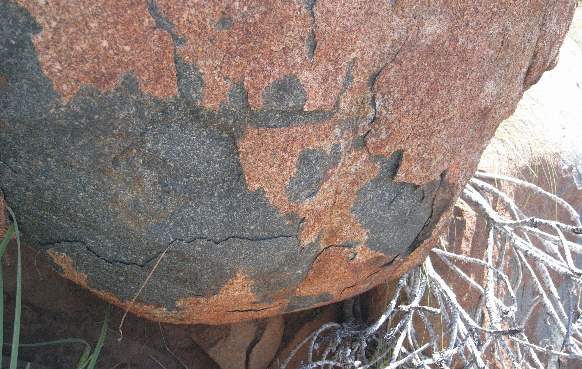 onion weathering by Dolerite, Amathole Mountains, RSA